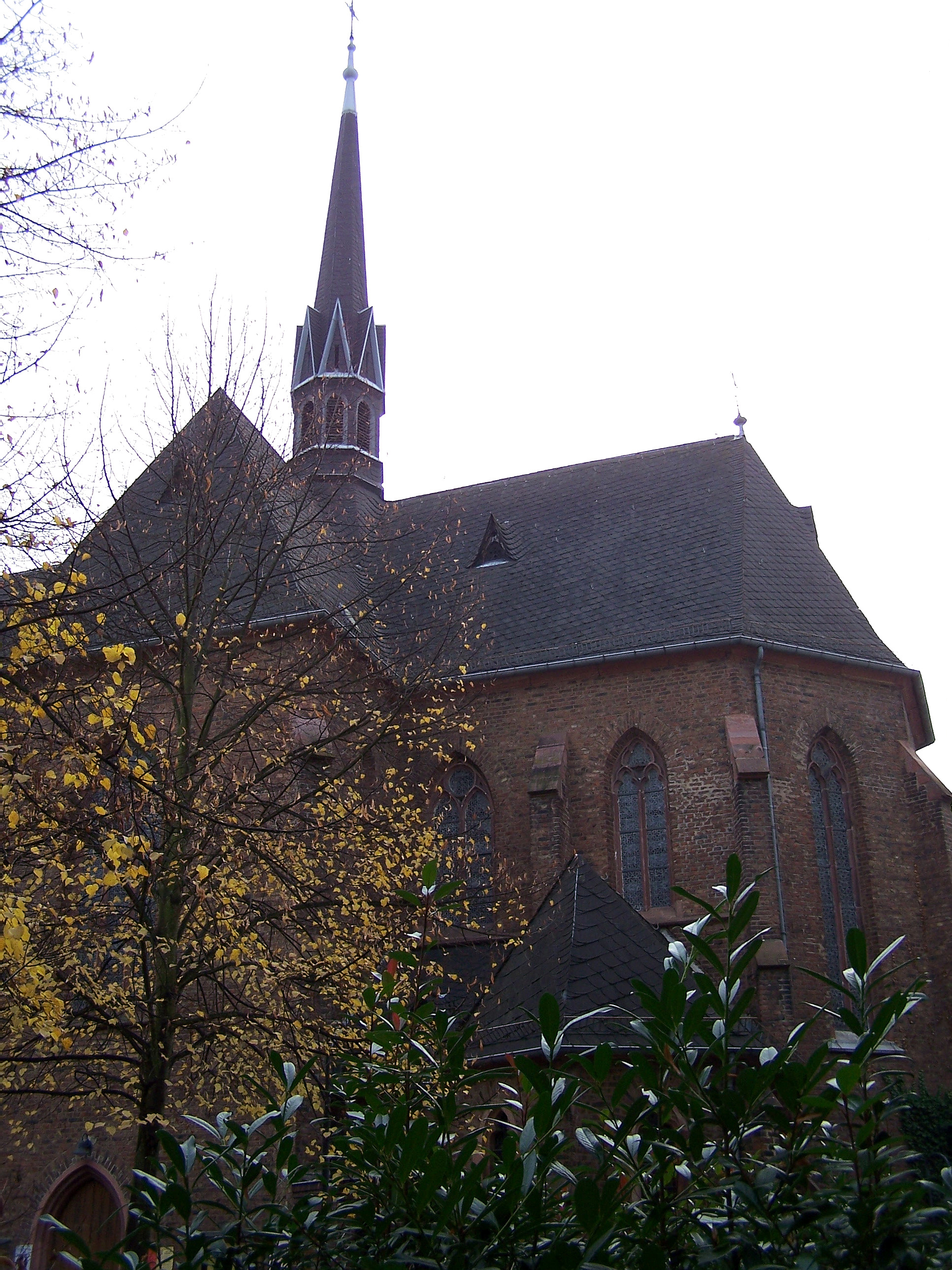 Old St.-Josefs Church in Frankfurt am Main-Bornheim of 1876, situation of 2009